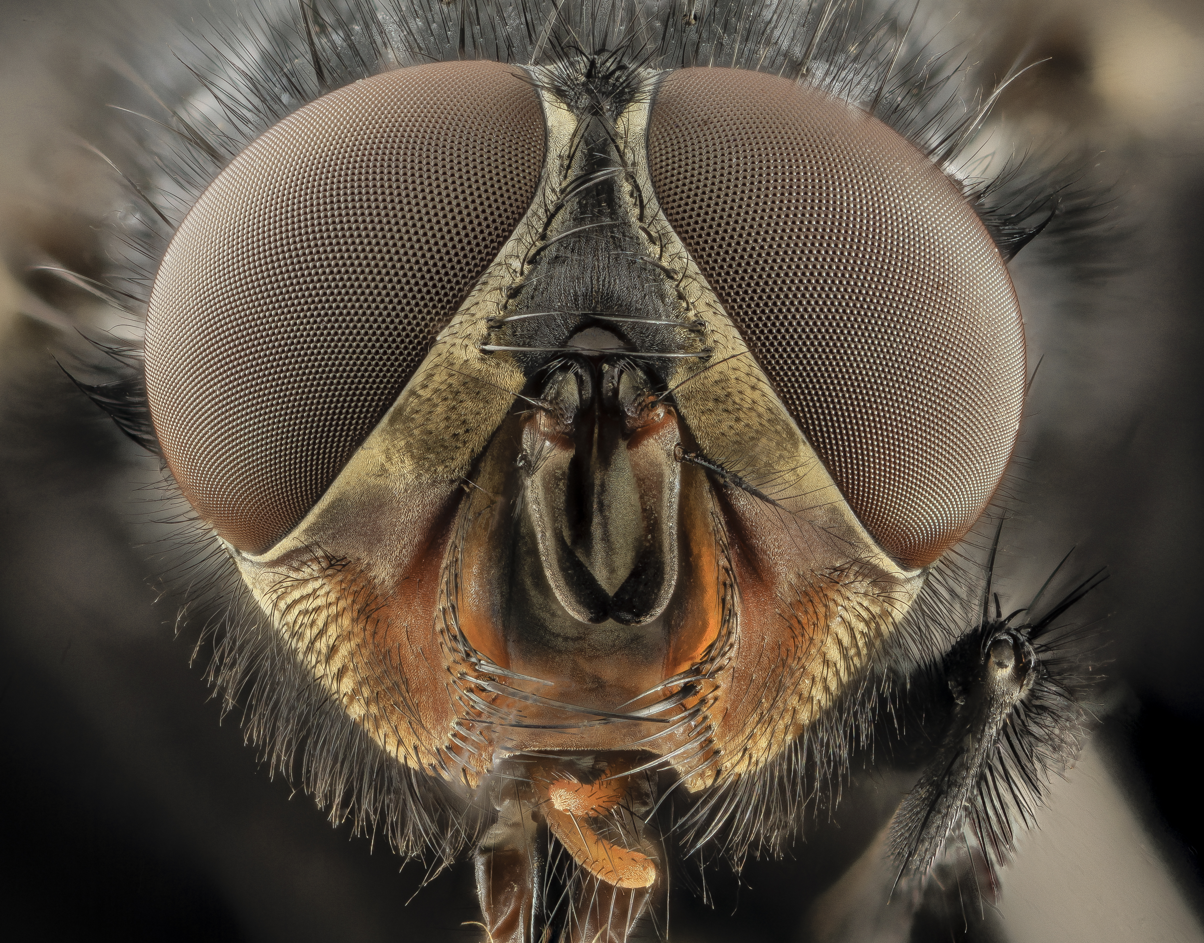 Head of a Calliphora vicina, face view. The face of insect form, layout, and ratios. Have to download and print to really see the details on this bad boy. Found near the Mall in downtown D.C. Canon Mark II 5D, Zerene Stacker, Stackshot Sled, 65mm Canon MP-E 1-5X macro lens, Twin Macro Flash in Styrofoam Cooler, F5.0, ISO 100, Shutter Speed 200